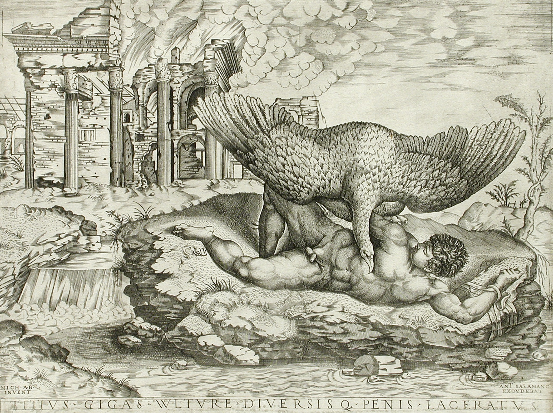 Italy, circa 1540 Prints; engravings Engraving Graphic Arts Council Fund (M.81.50.1) Prints and Drawings